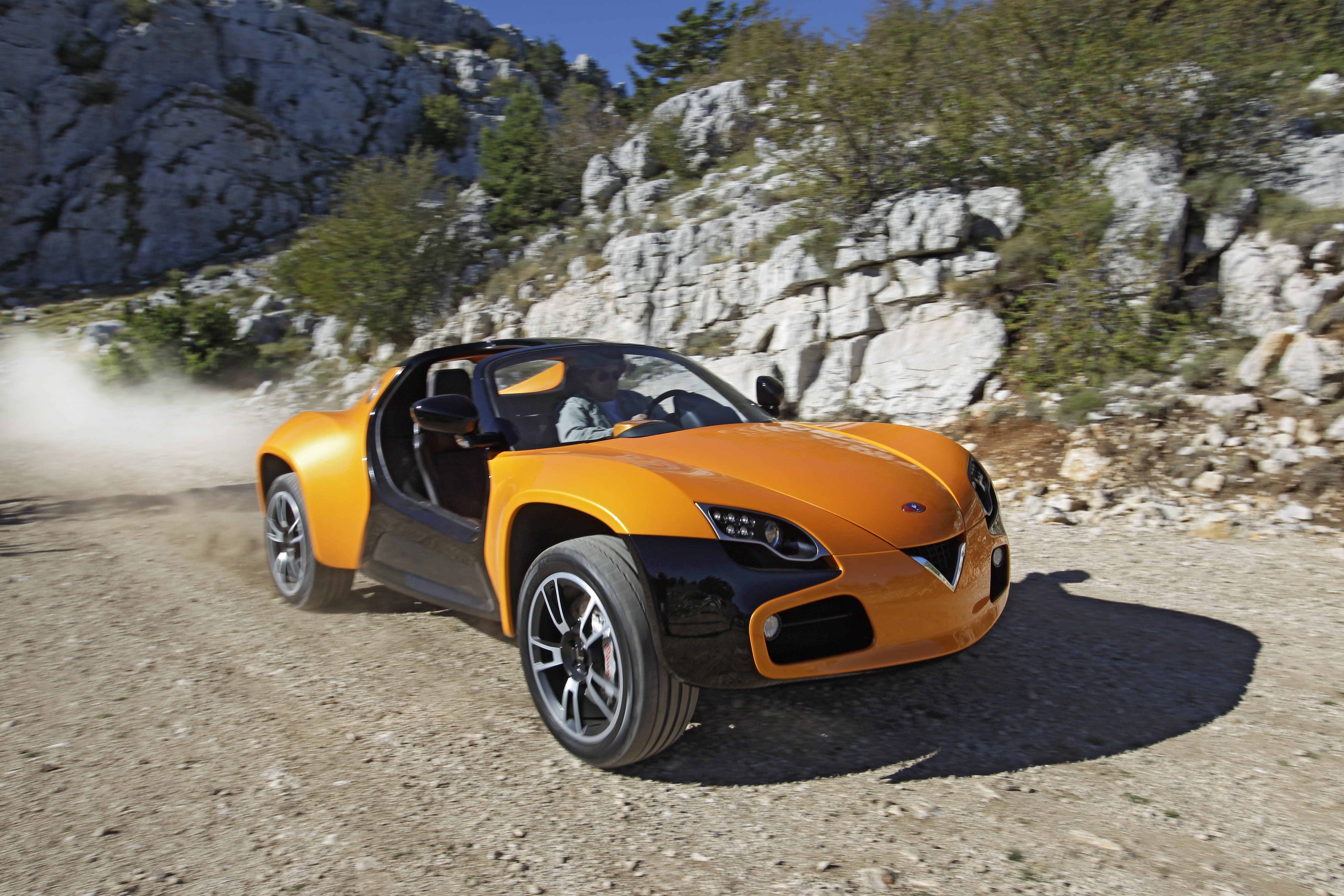 Venturi America: world's first electric crossover